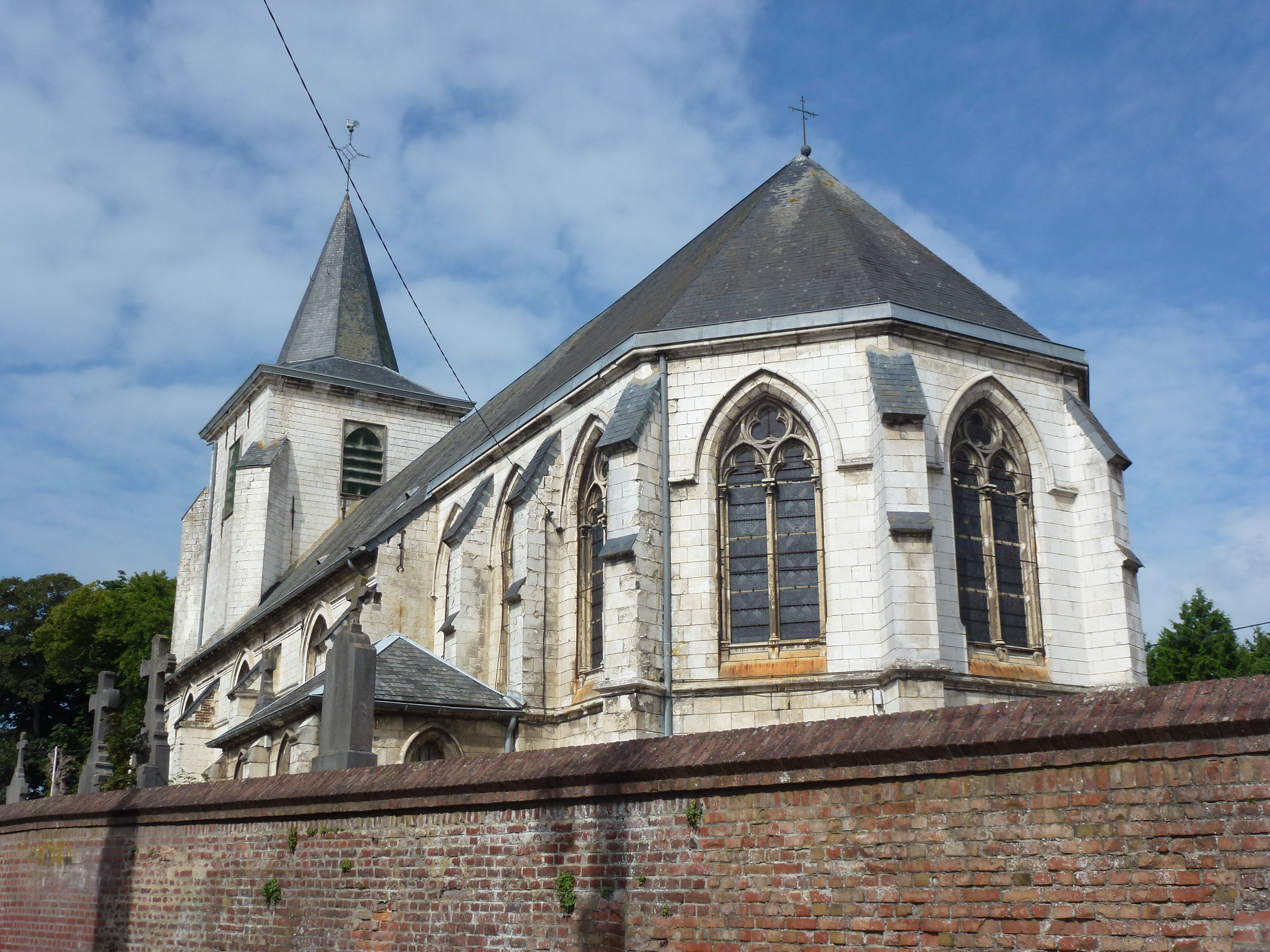 Tatinghem (Pas-de-Calais, Fr) Église Saint-Jacques